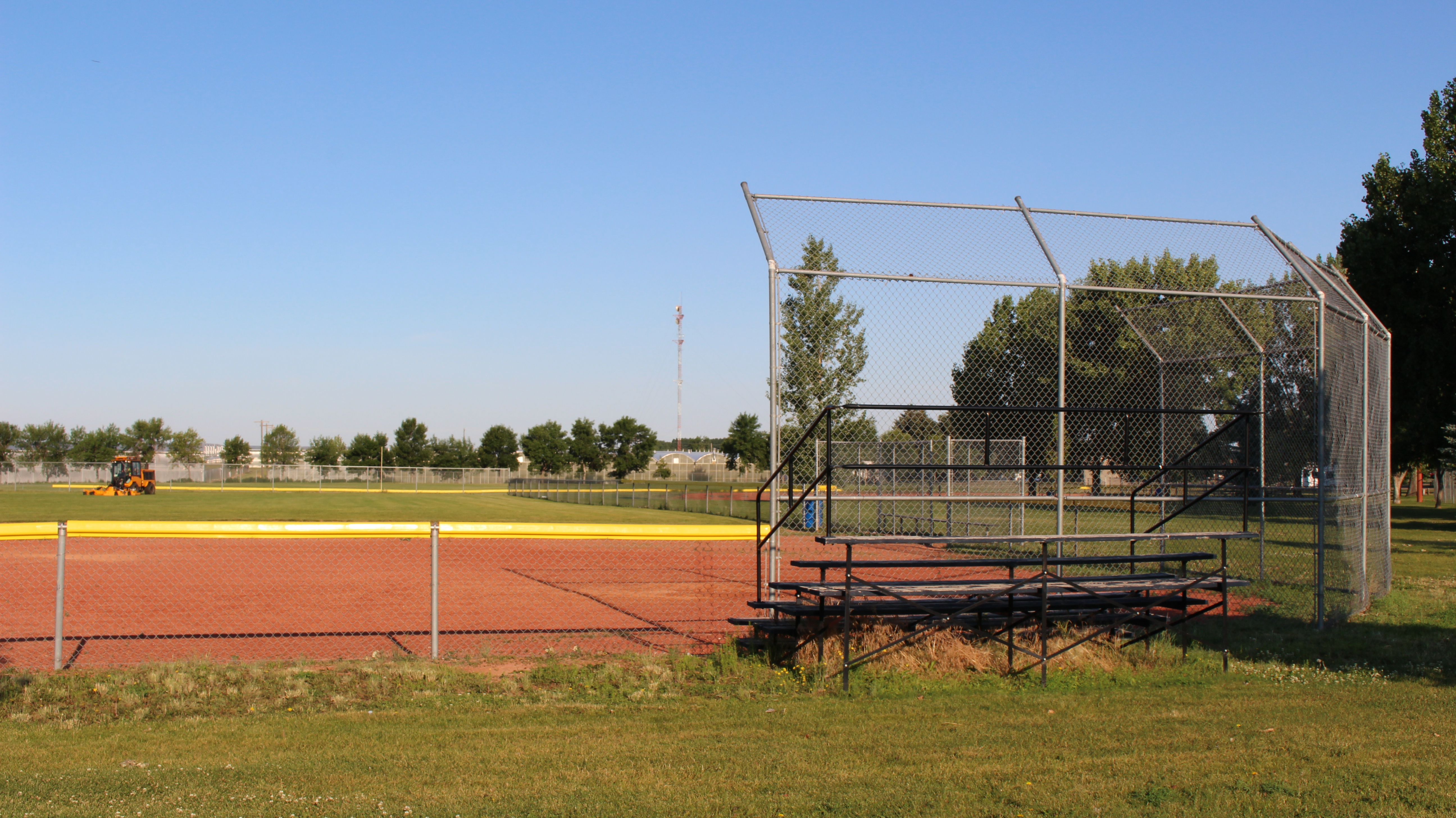 Redcliff, Alberta, Canada